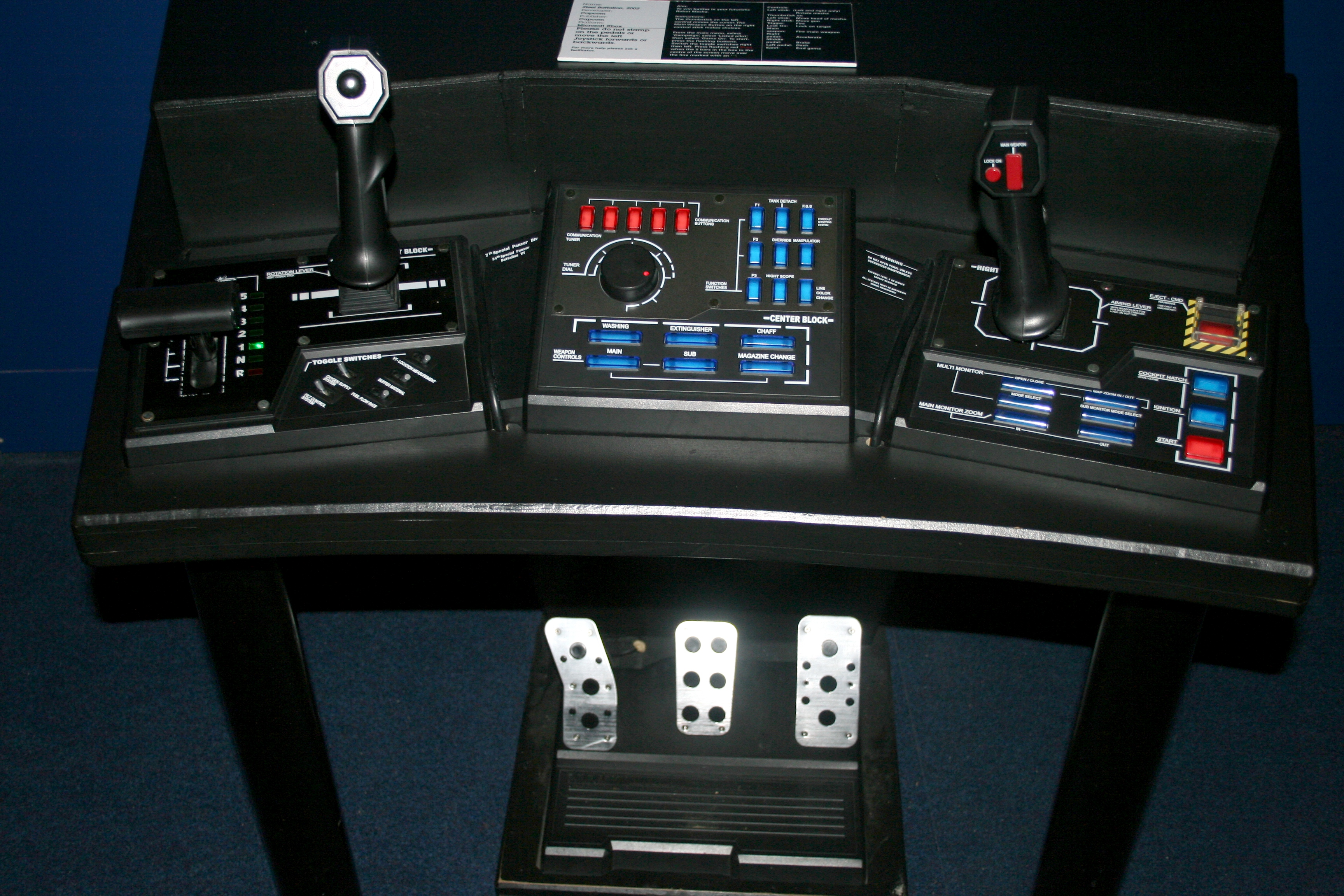 Controller and pedal for Steel Battalion